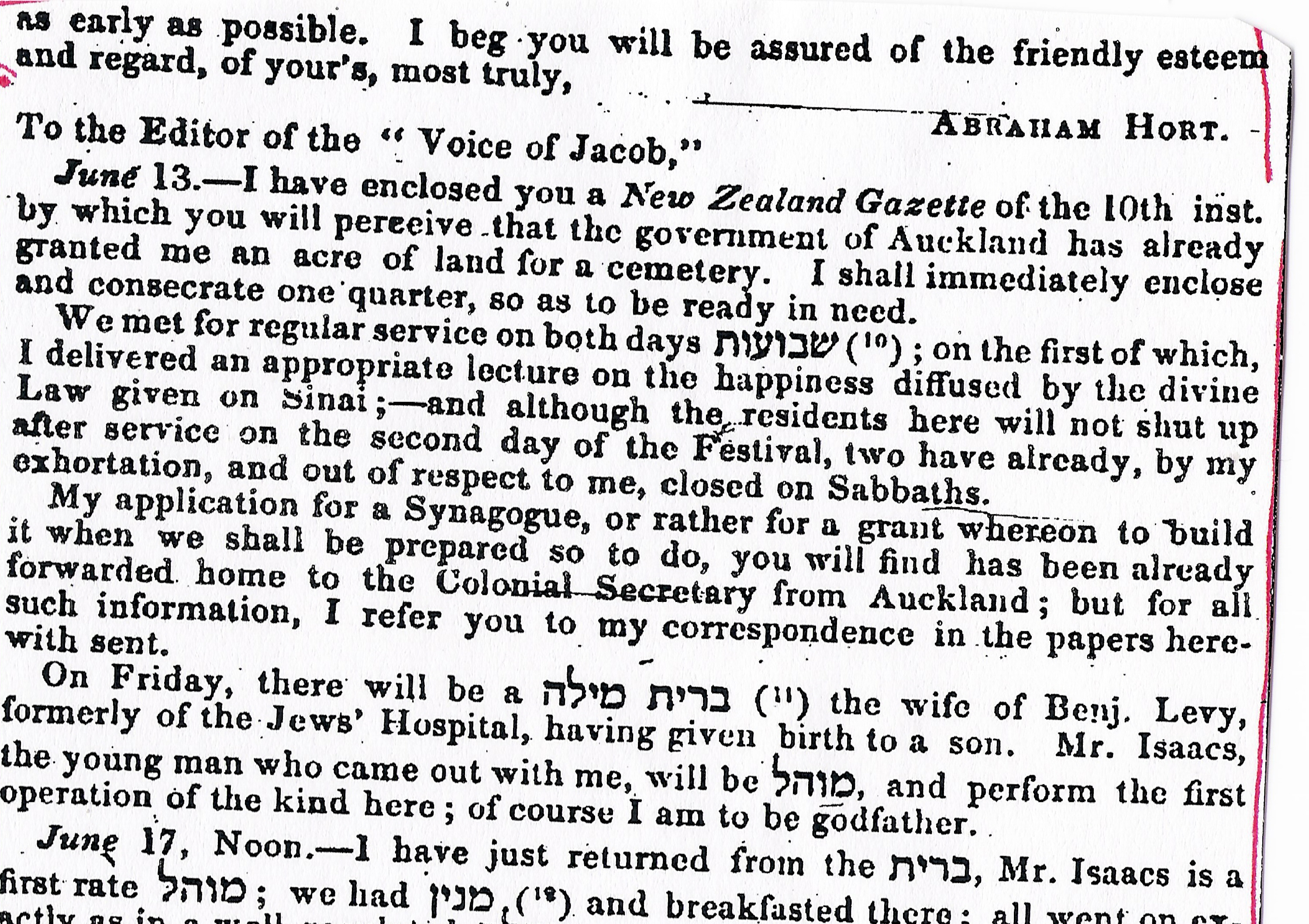 This is a description from the Jewish Chronicle in London of the first Jewish circumcision ceremony (bris, or brit milah) known to have taken place in New Zealand.